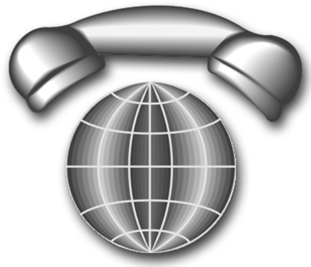 US Navy Interior Communica­tions Electrician (IC). Electrician Mate's device with a French-style tele­phone above it.